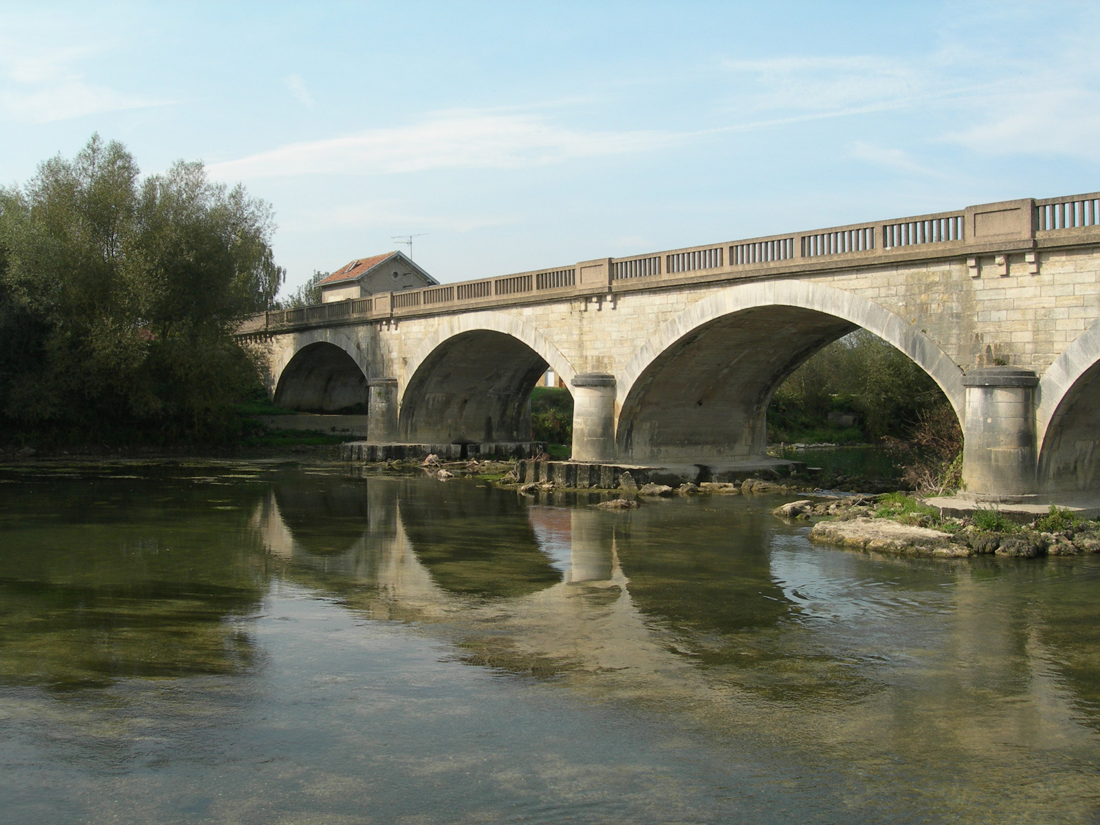 Sassey Sur Meuse - Reflections of the Bridge